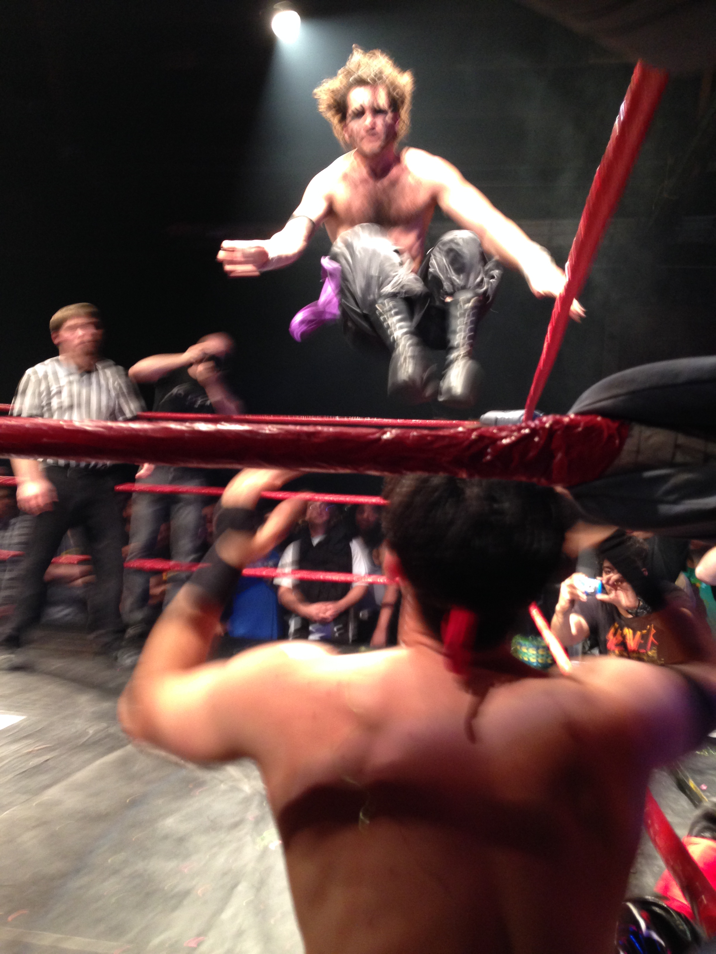 Wrestlers at Hoodslam